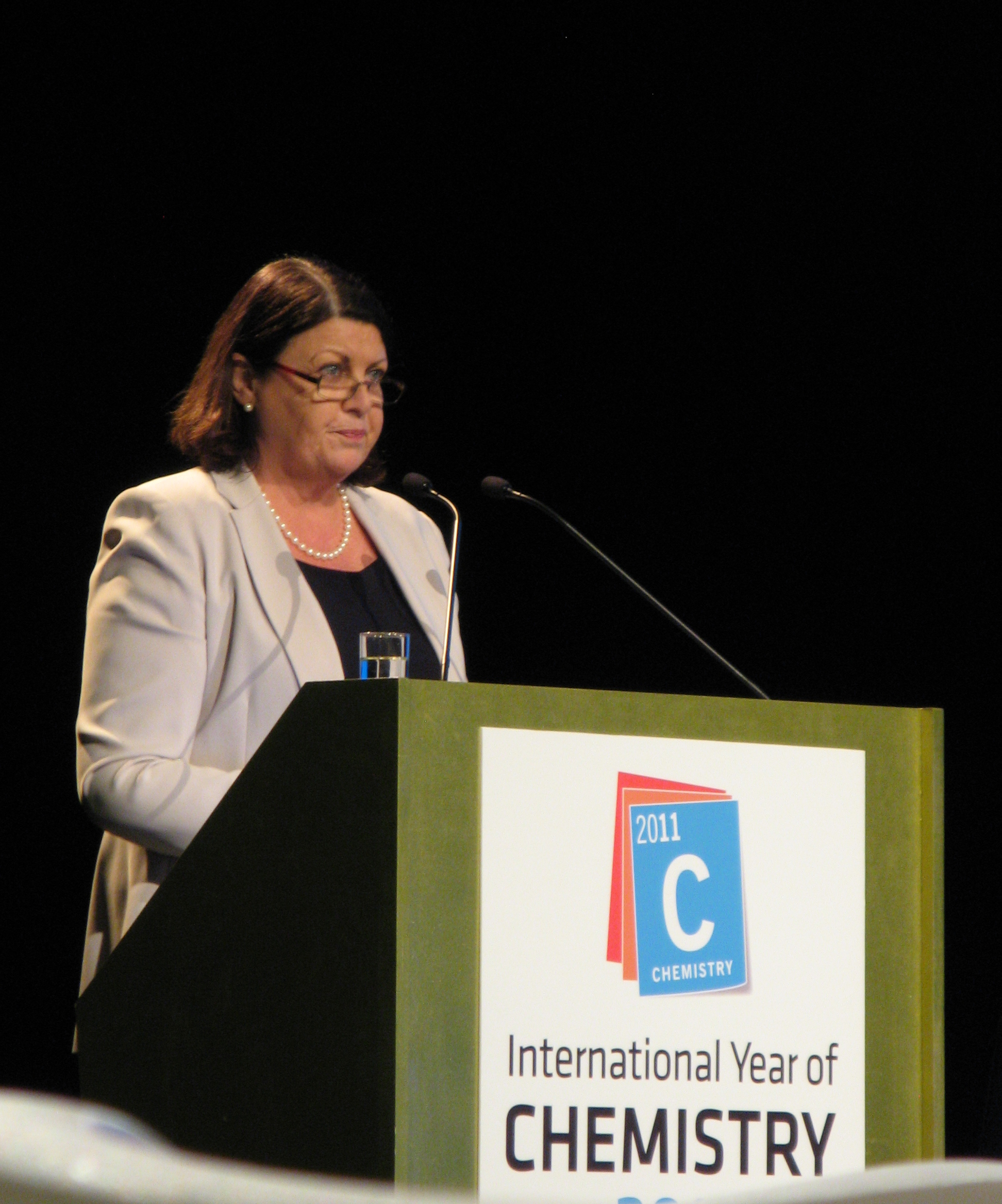 Máire Geoghegan-Quinn speaking at the Closing Ceremony of the International Year of Chemistry, Brussels.